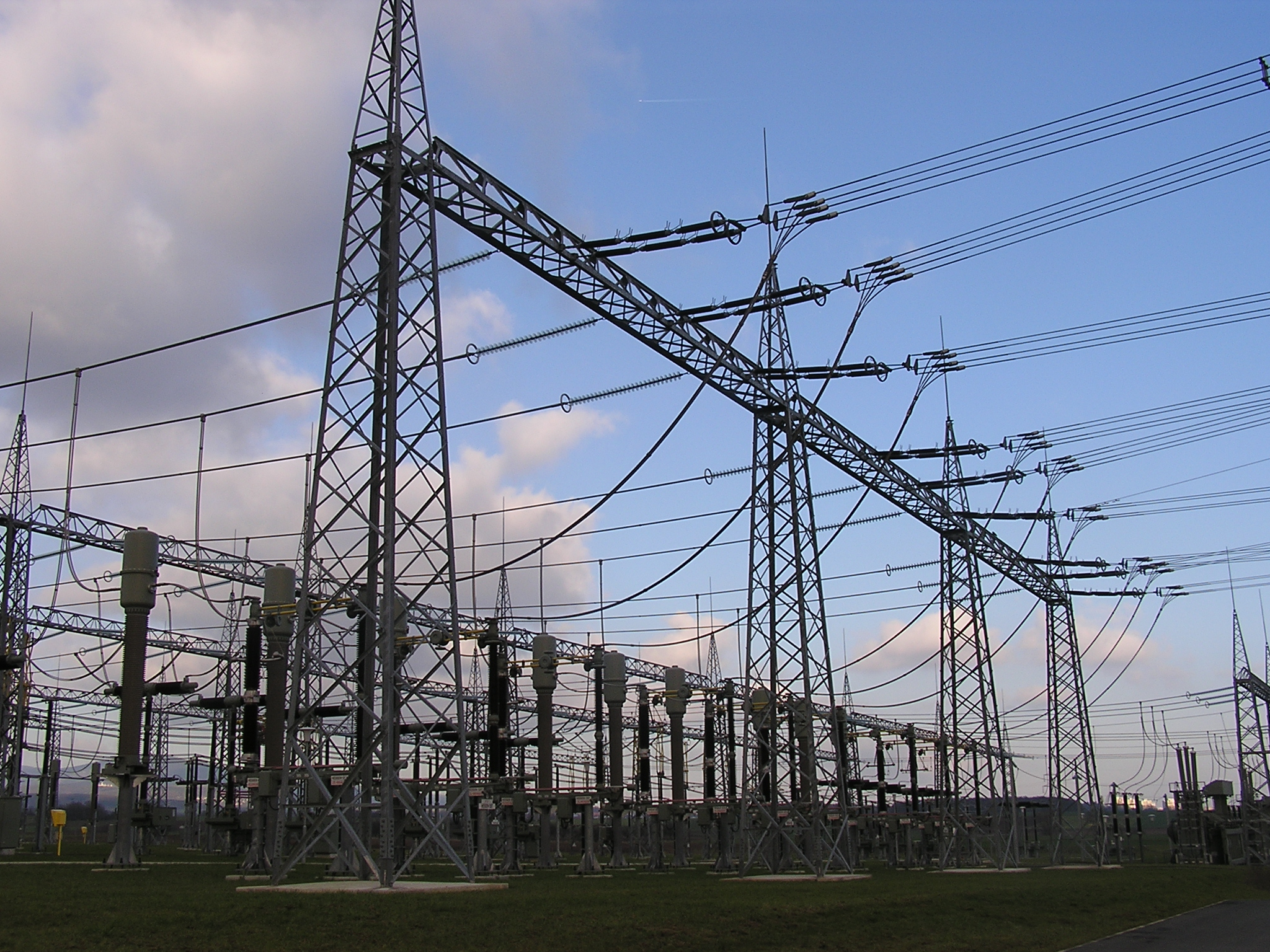 portal pylons of Kriftel substation near Frankfurt